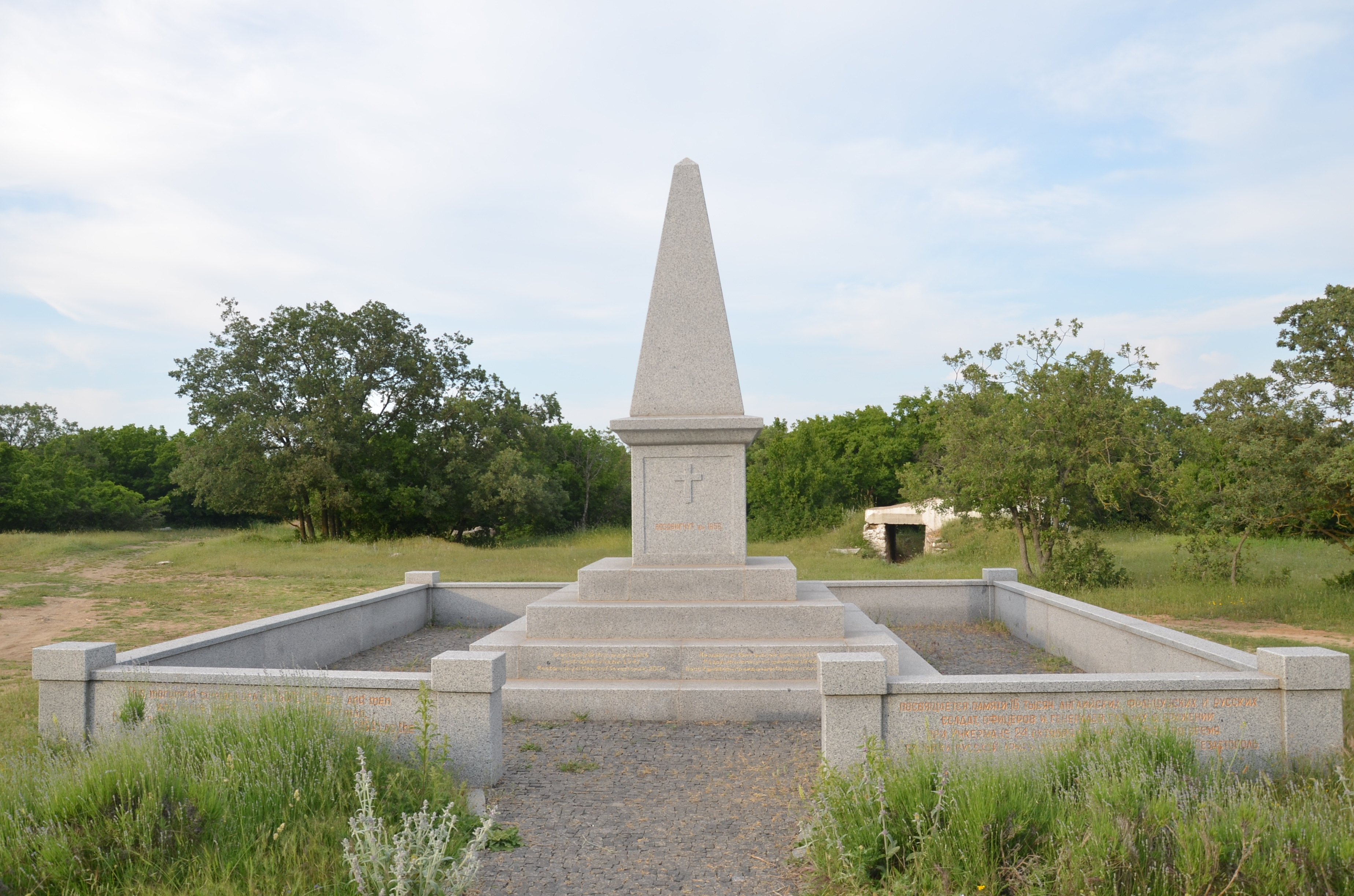 Monument in memory of the fallen in the battle of Inkerman